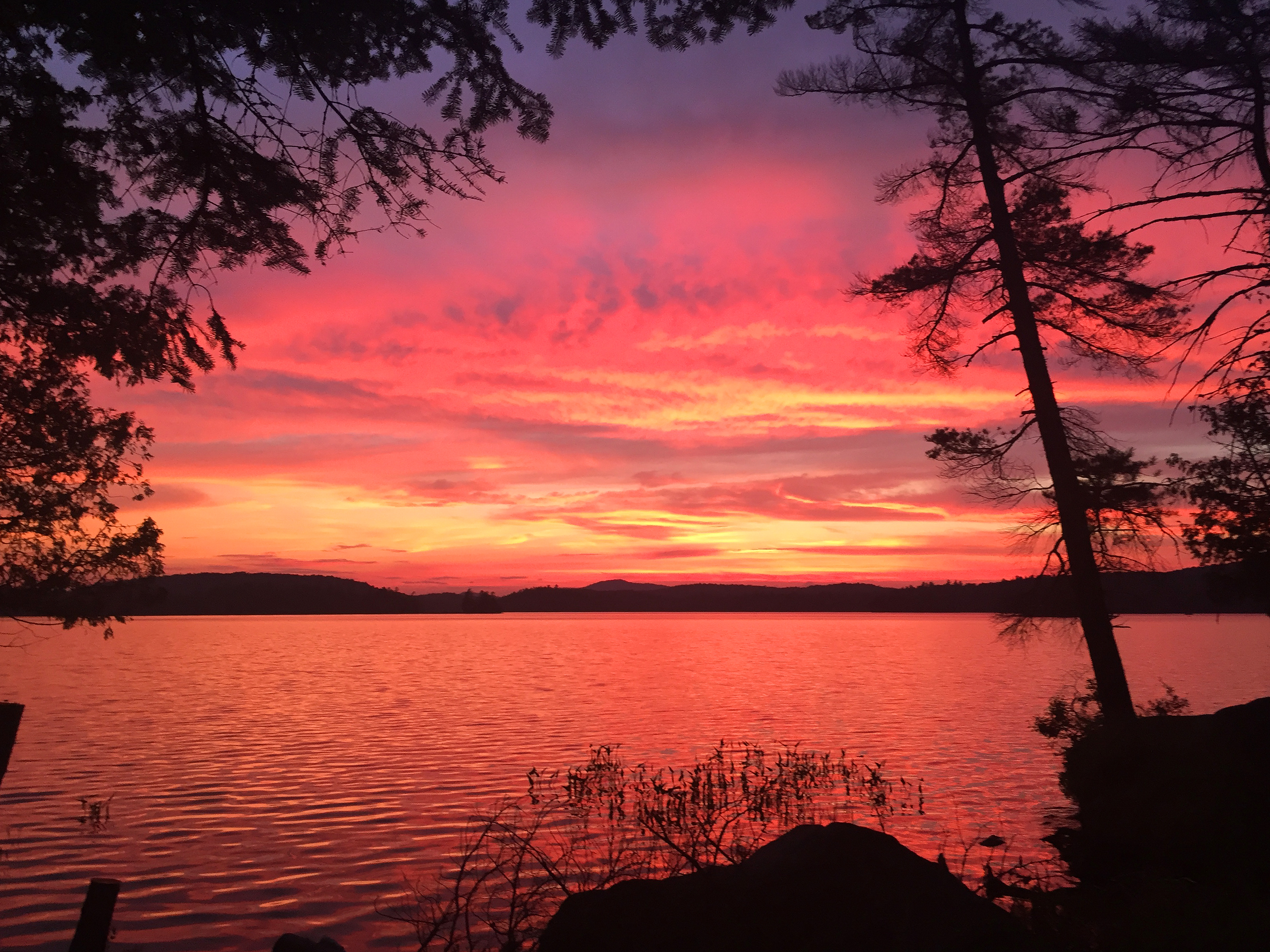 Sunset From Oseetah Lake, NY by Christine Dekkers